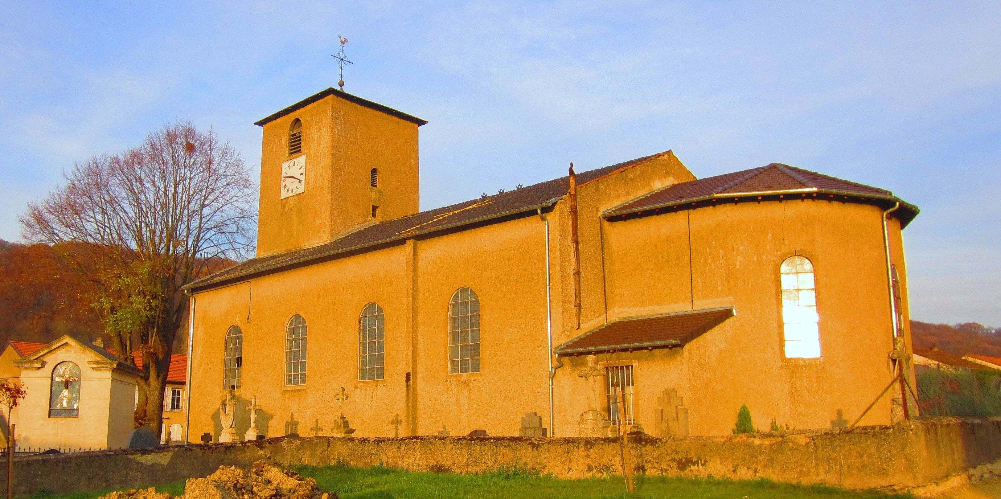 Description eglise Buding Date23 November 2011Sourcemon appareil photoAuthorAimelaimePermission(Reusing this file) eglise Buding